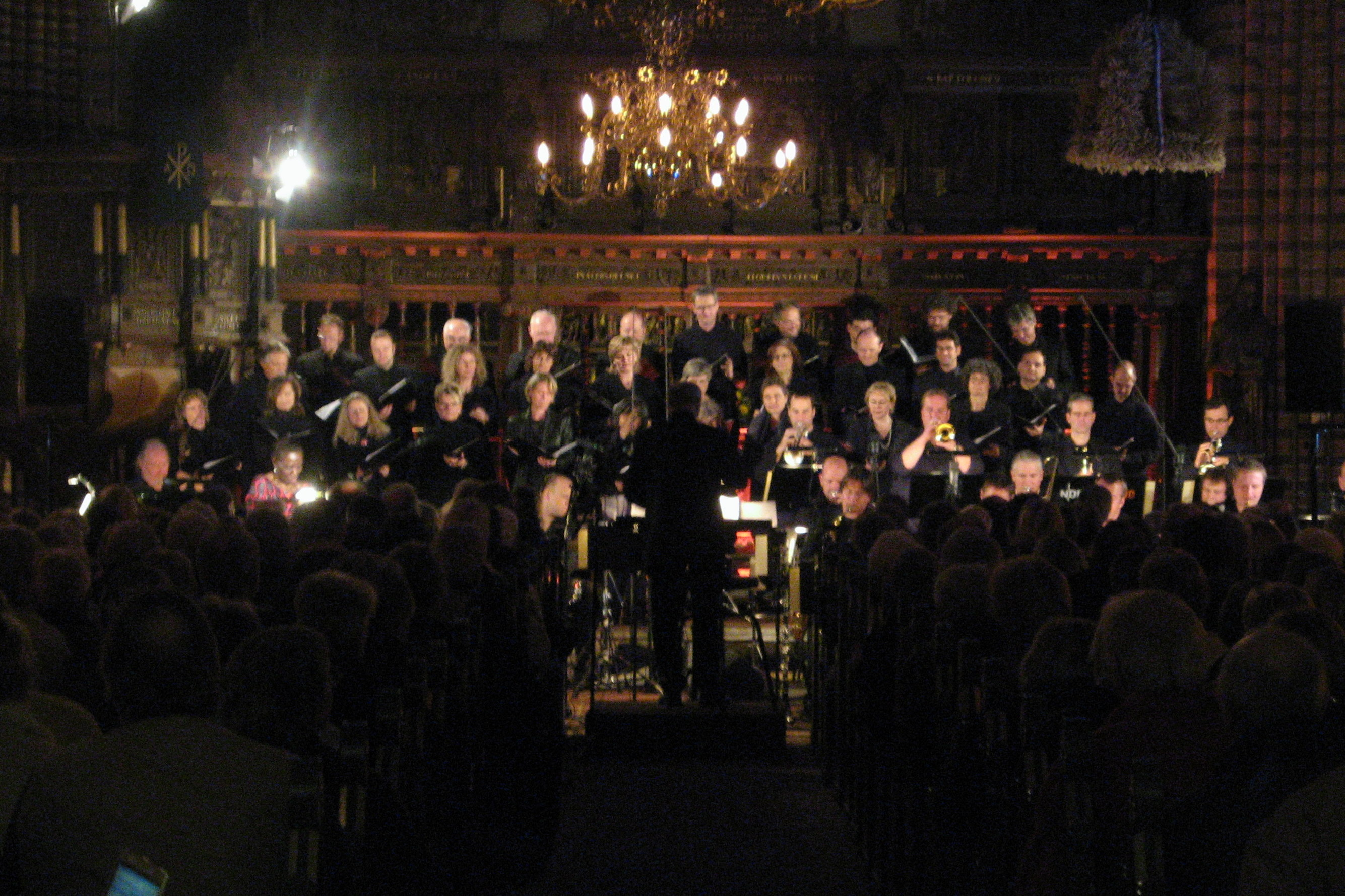 NDR Bigband during a concert at Meldorf Cathedral, Meldorf, Holstein, Germany